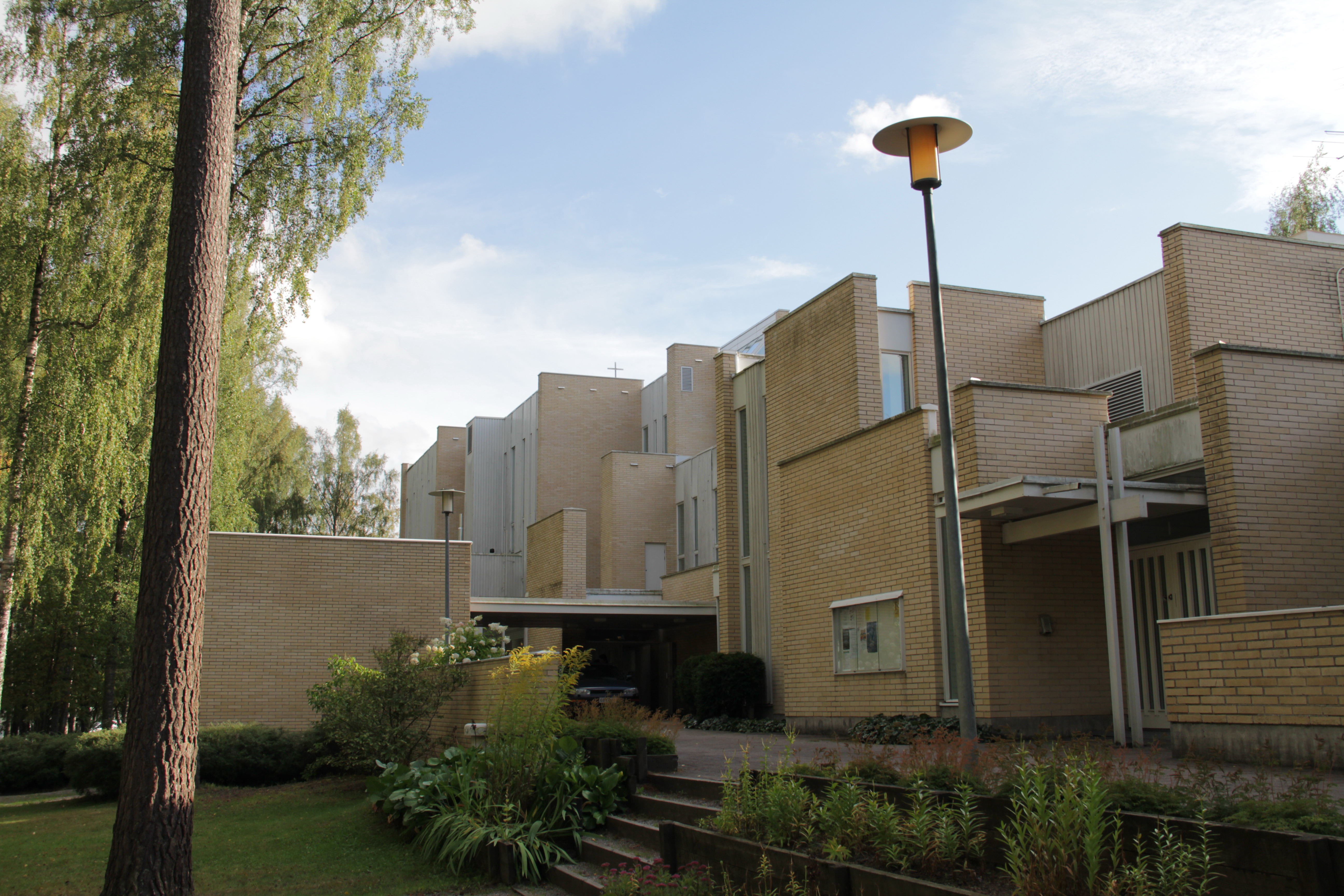 Myyrmäki church in Myyrmäki, Vantaa, Finland. The church is designed by architect Juha Leiviskä and completed in 1984. Eastern facade seen from northeast. Main entrance under the canopy.